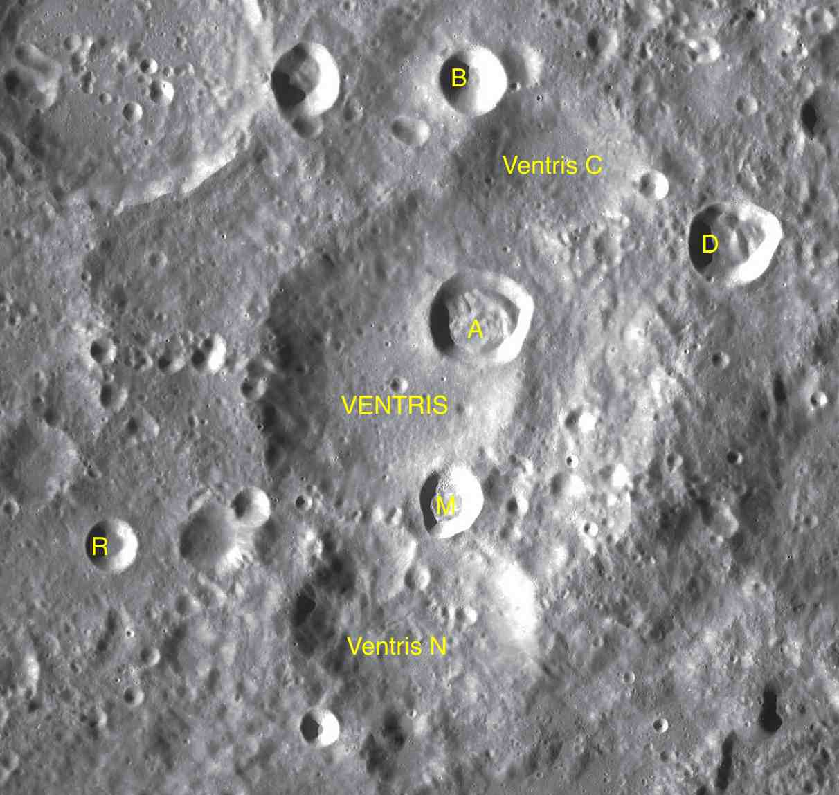 Part of the chart LAC-85 used for the presentation